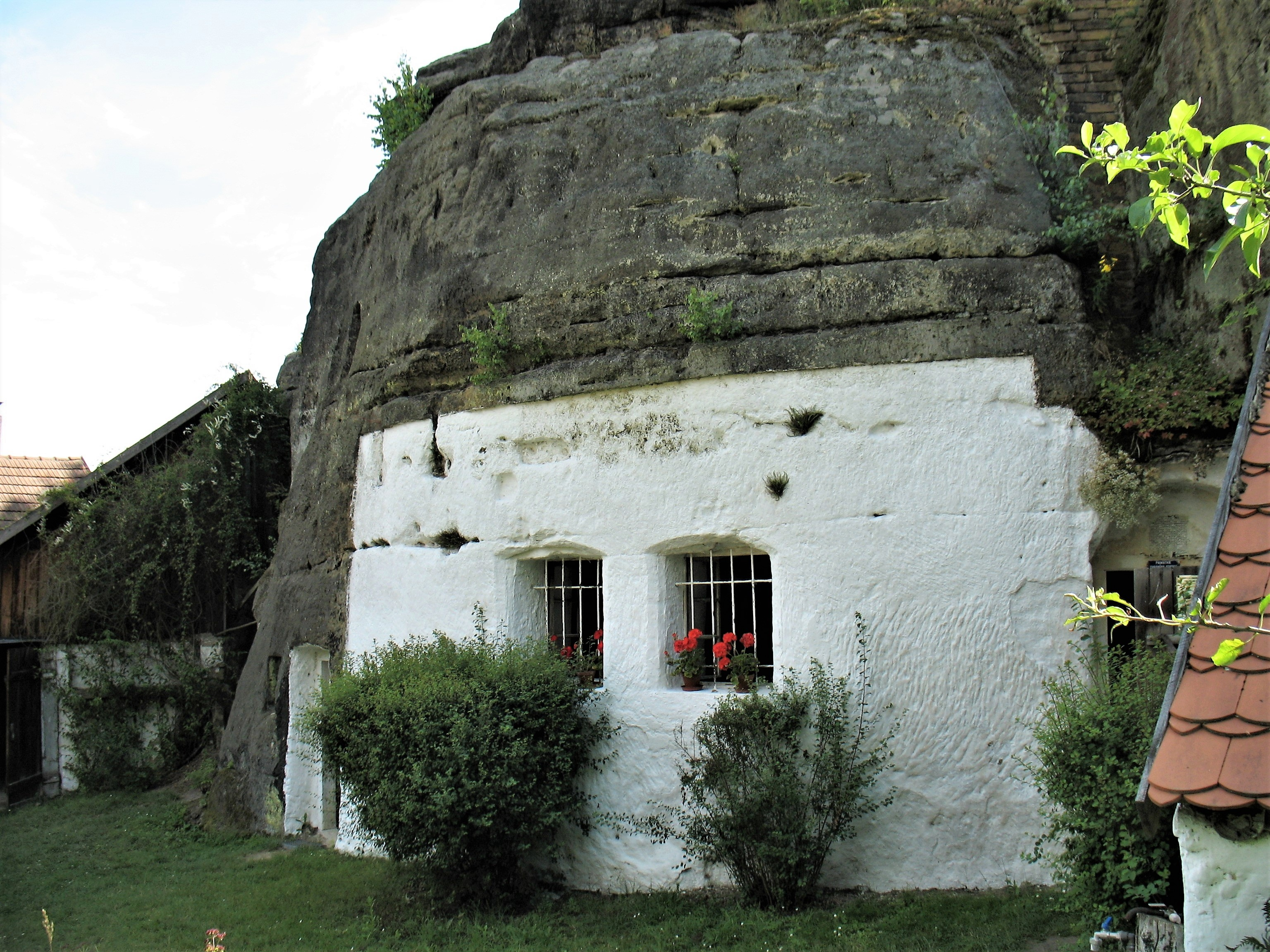 Rock dwelling in Lhotka Village, Mělník District, Czech Republic